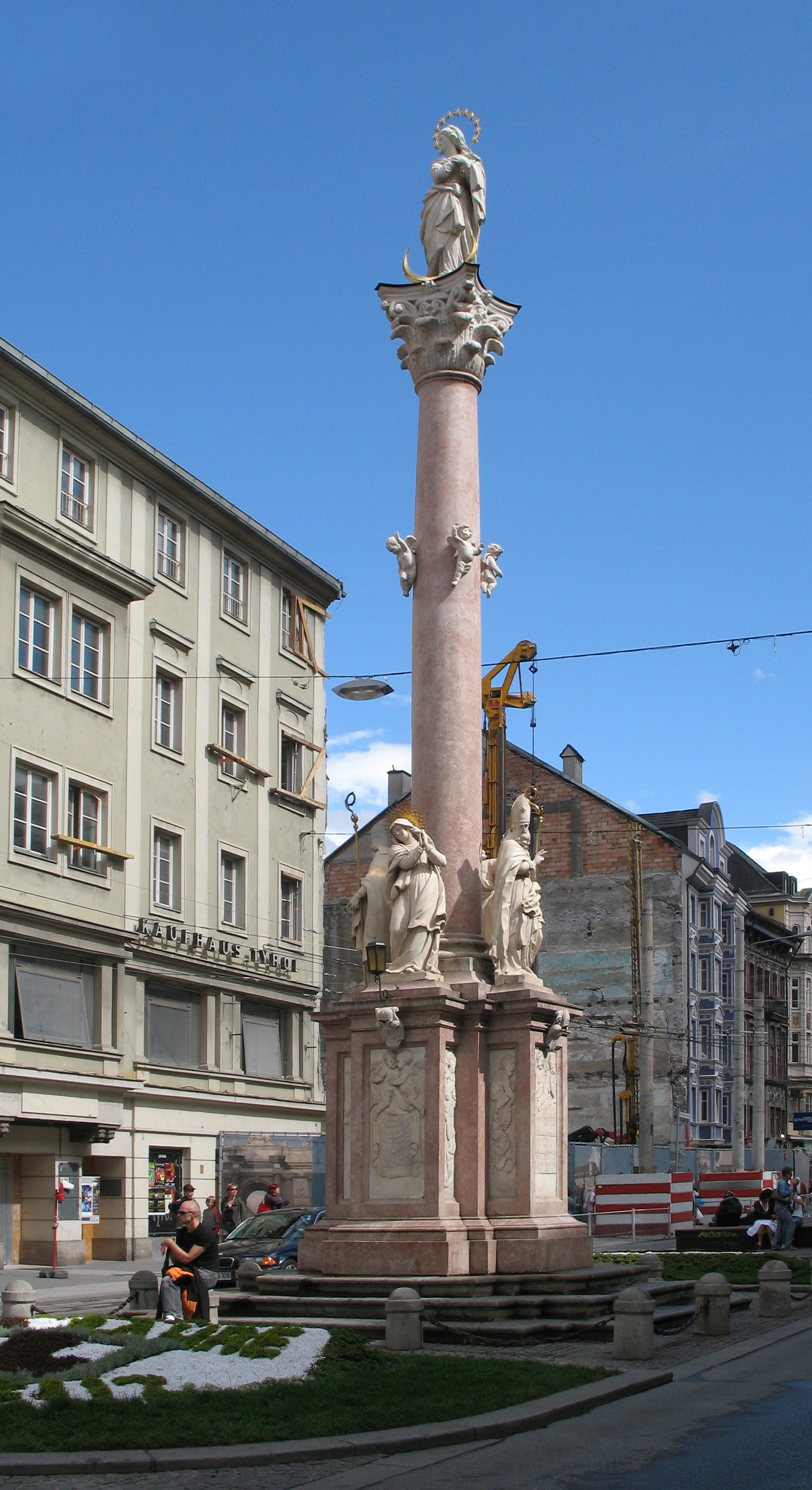 Anna Column, Innsbruck, Austria, edited version; left in front St. Anne facing north